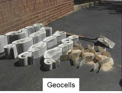 Geocells